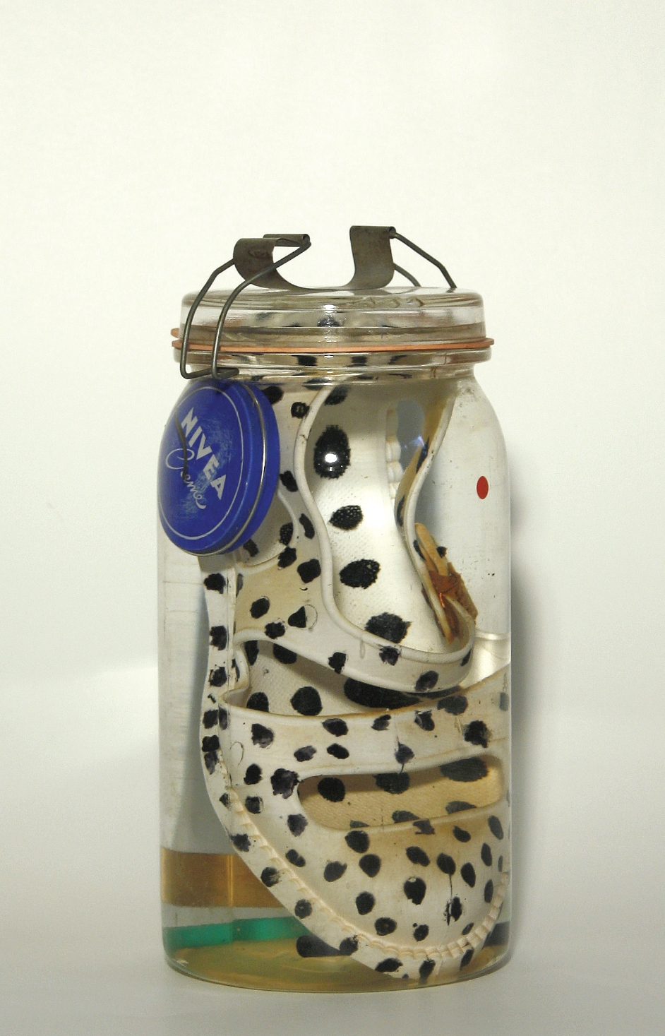 Dieter Reick, Beach Holiday (1968). Multiple. 24x11x11 cm.